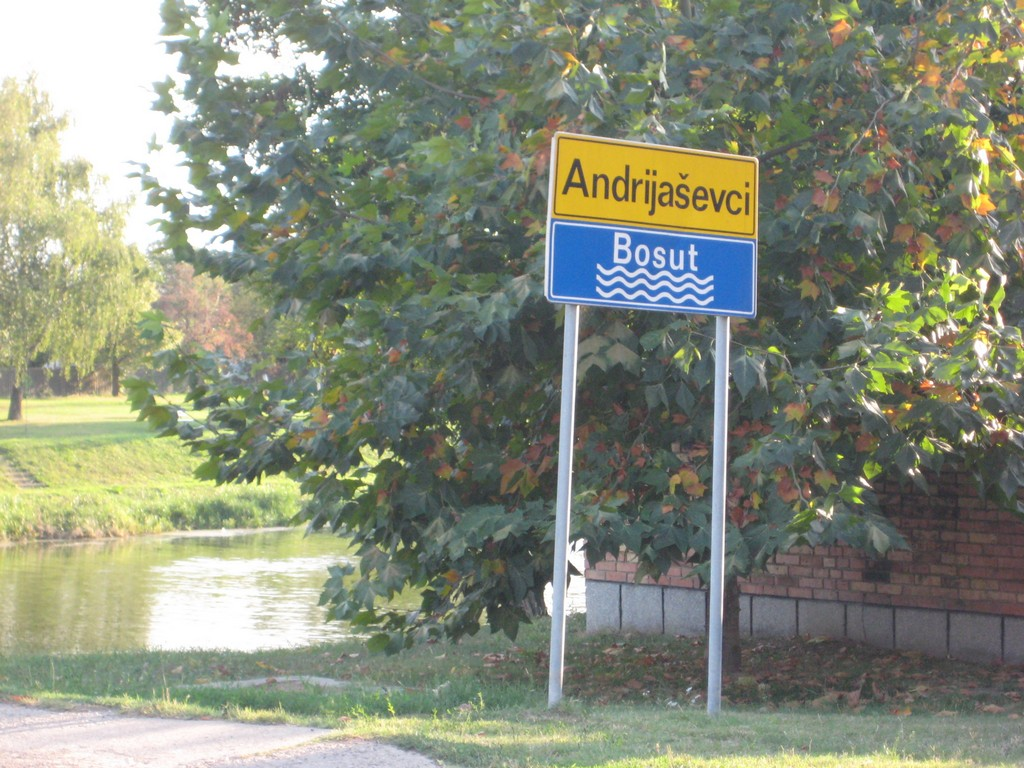 Rijeka Bosut Andrijaševci